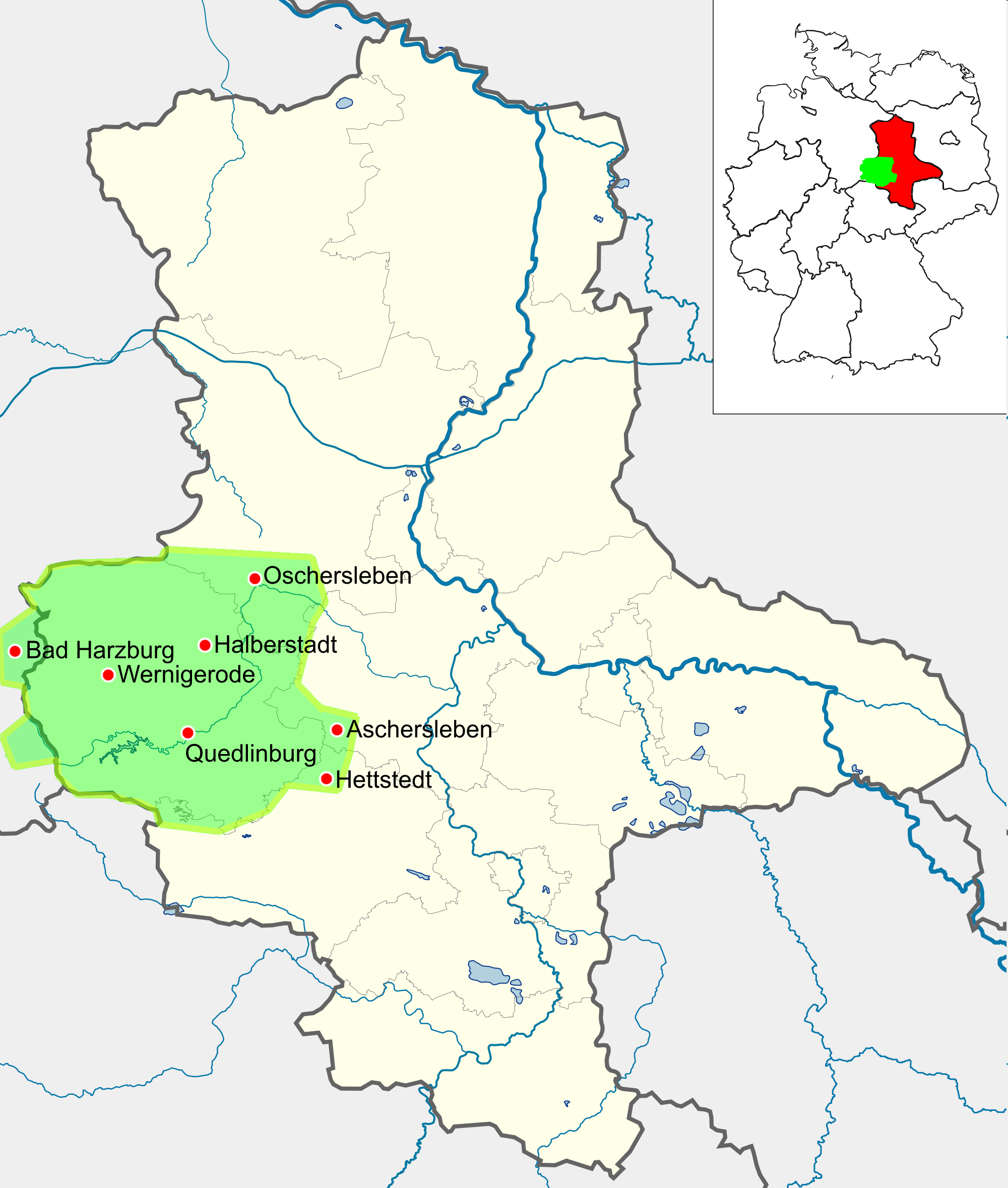 Location map of the Verkehrs- und Tarifgemeinschaft Ostharz in Germany, Saxony-Anhalt